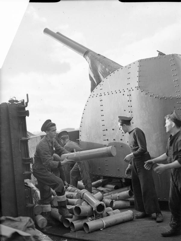 The Royal Navy during the Second World War Sailors aboard the cruiser HMS GLASGOW clear the deck of propellant cartridge cases ejected during the use of the cruiser's secondary armament, the twin 4 inch Mark XVI guns.